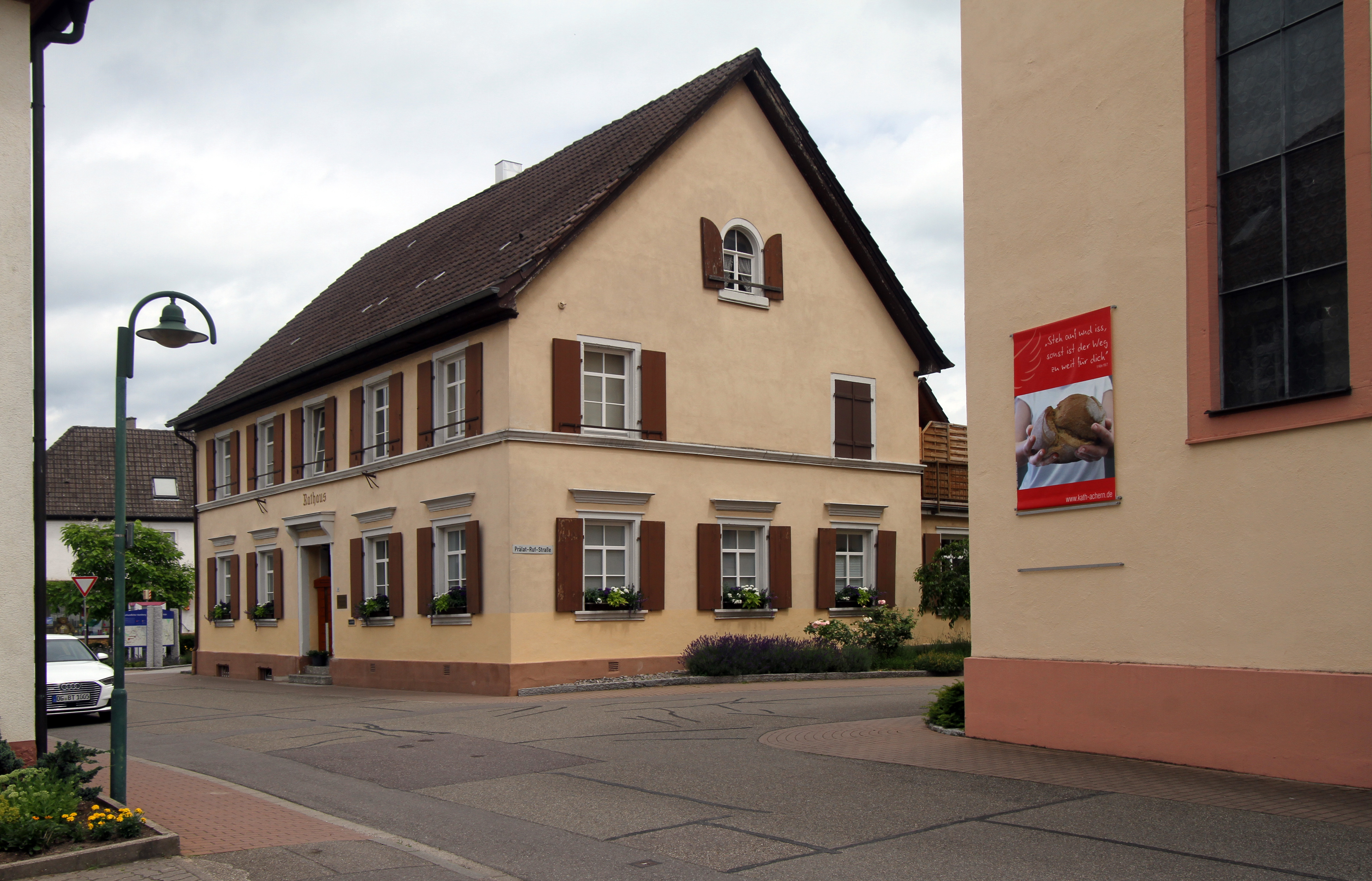 City hall in Achern-Önsbach.